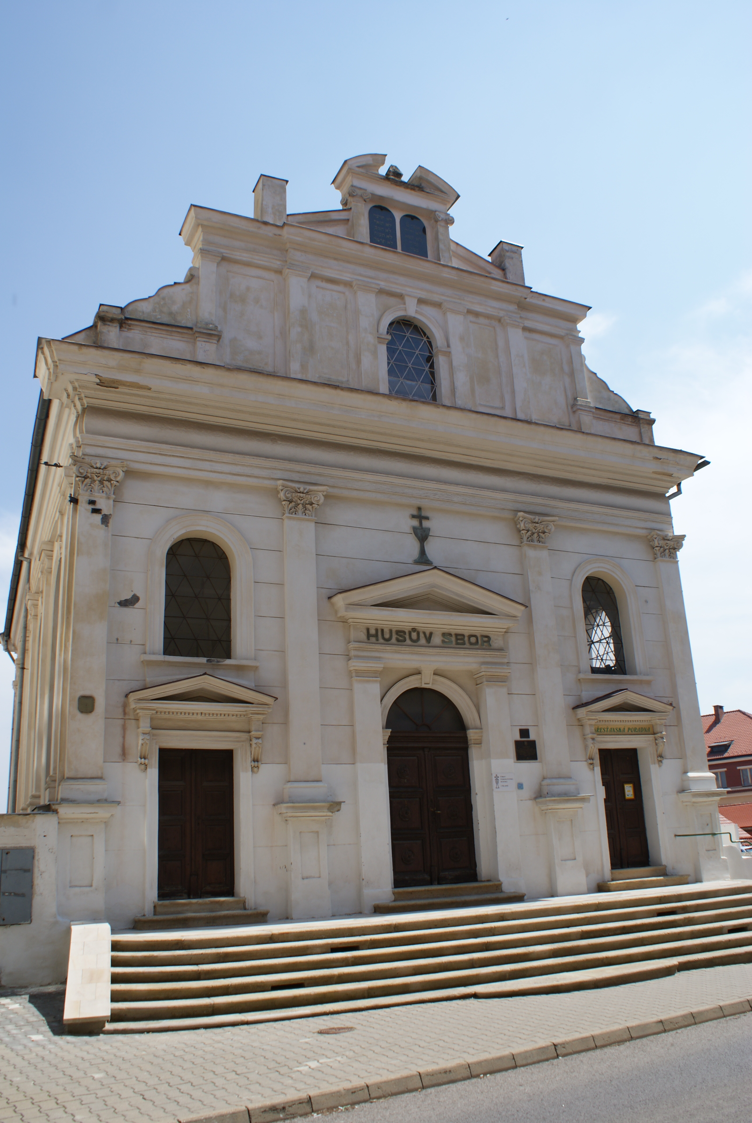 Kladno a town in Central Bohemian region, Czech Republic, former synagogue.